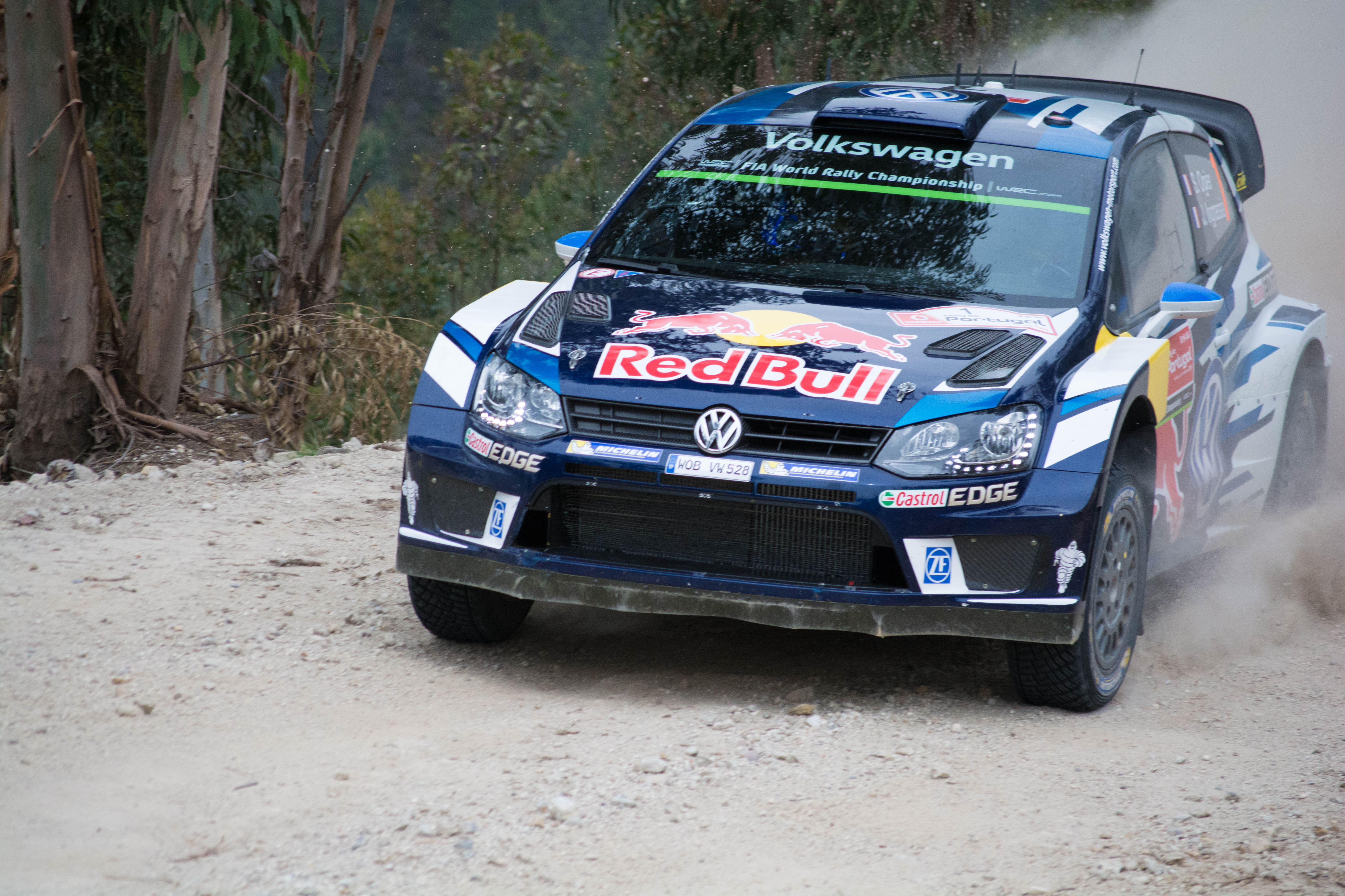 Rally of Portugal 2016. Section of "Amarante", on the first pass